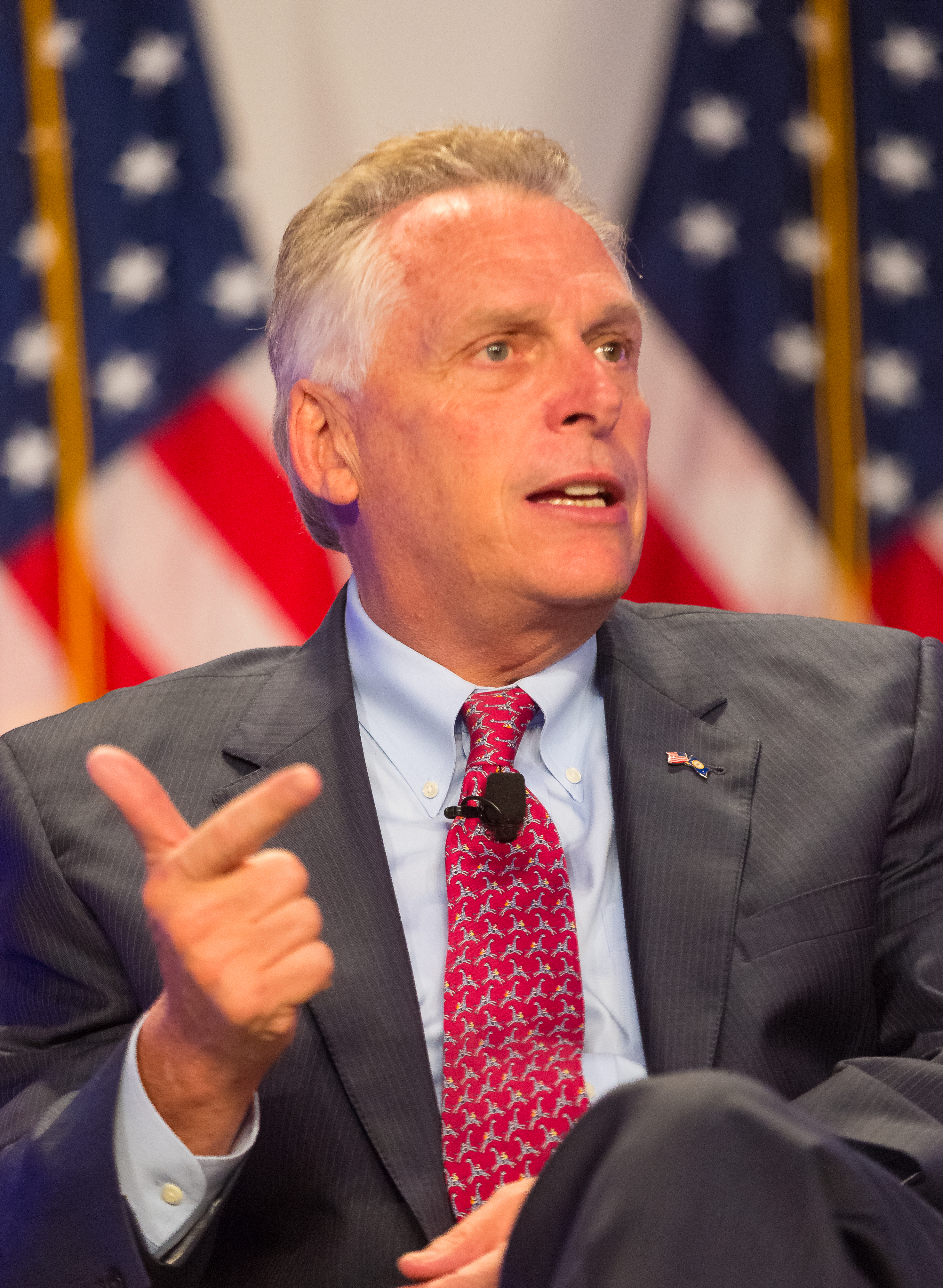 Washington, D.C. - U.S. Secretary of Labor Thomas Perez moderates SelectUSA armchair discussion on workforce development. Virginia Governor Terry McAuliffe.